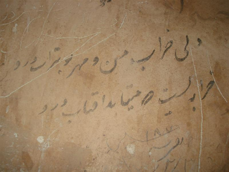 an interior image of the wall of Ghasem Anvar tomb , a calligraphy writing.